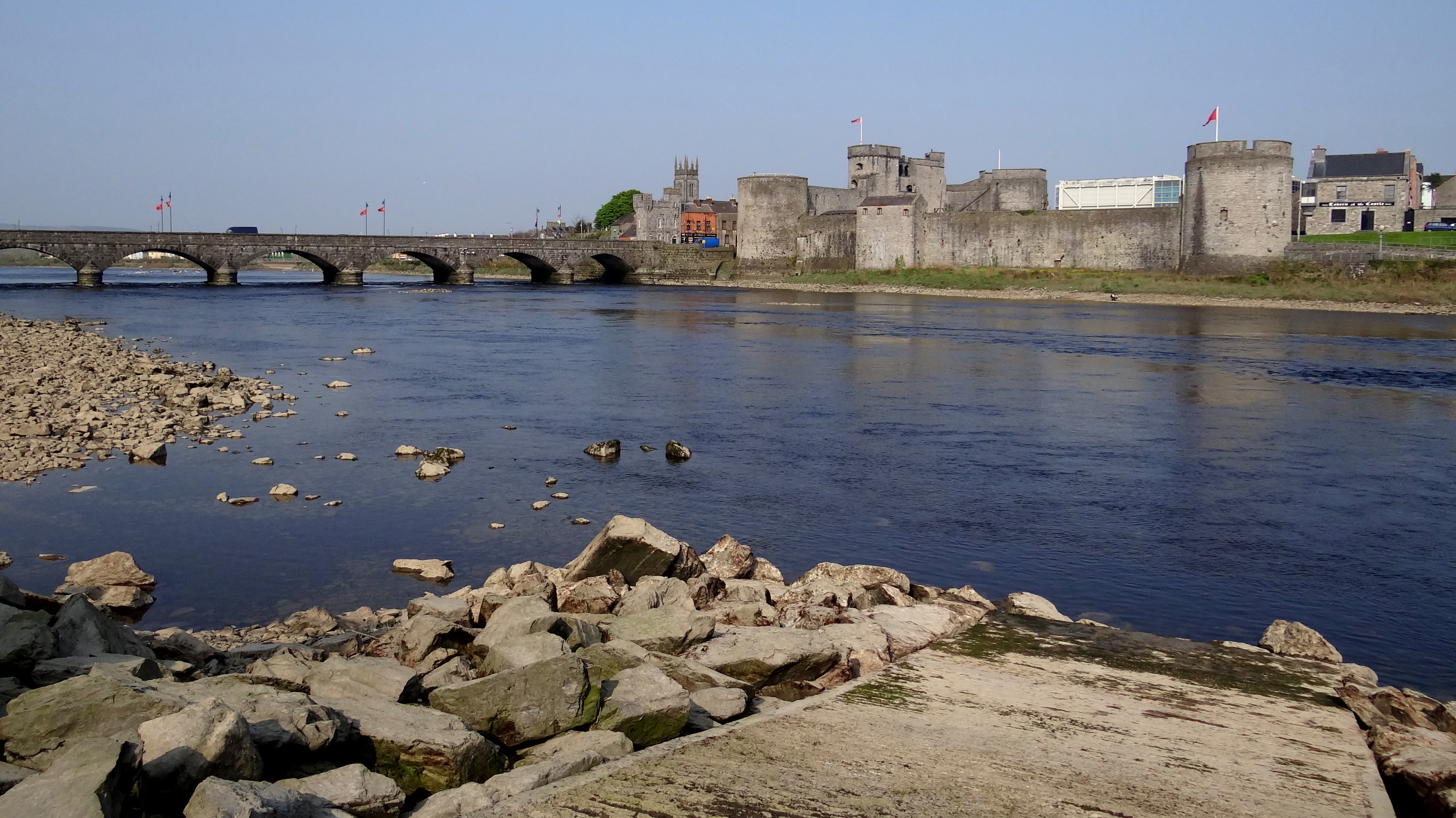 King John's Castle on the River Shannon in Limerick City, Ireland. Crossing the river is the Thomand Bridge.